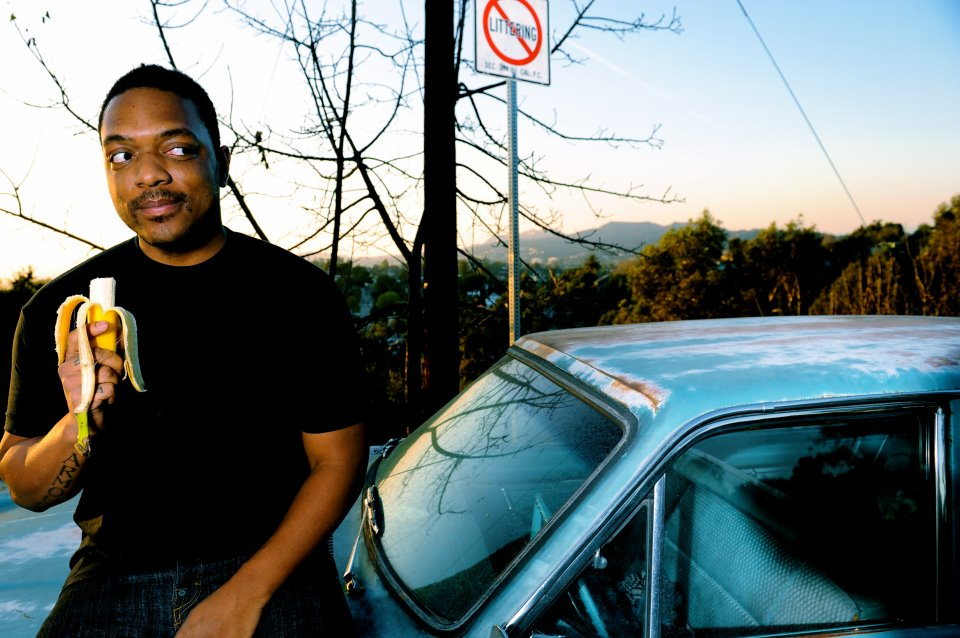 The Future Is Bananas. Shot near Silverlake, CA by Karine Simon.